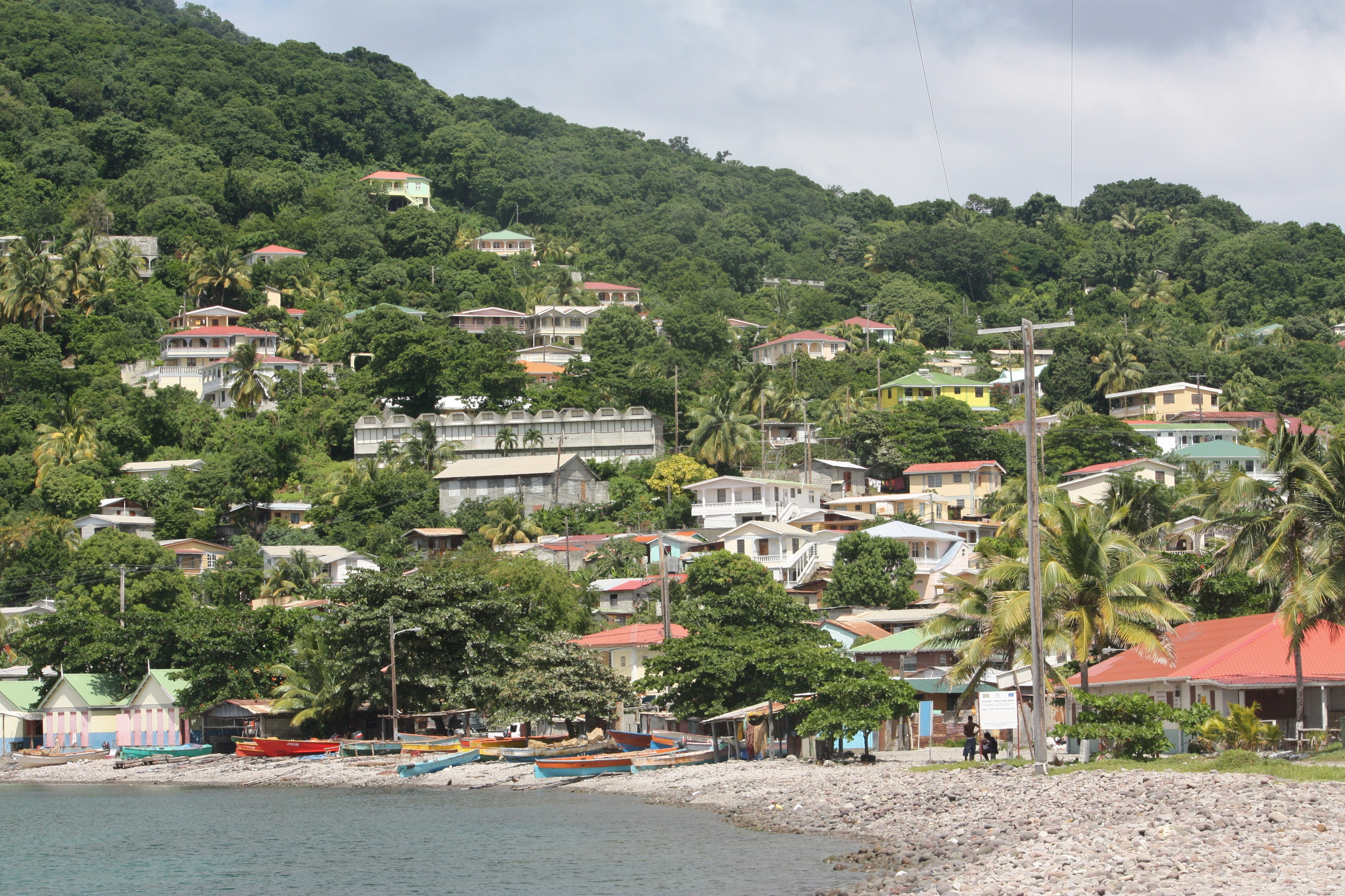 Scotts Head village. Saint Mark Parish, Dominica.